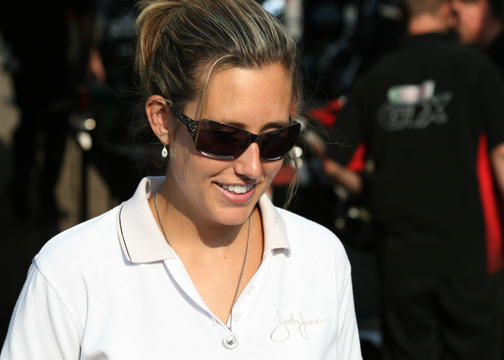 NHRA drag racer Ashley Force in August 2007Ashley Force